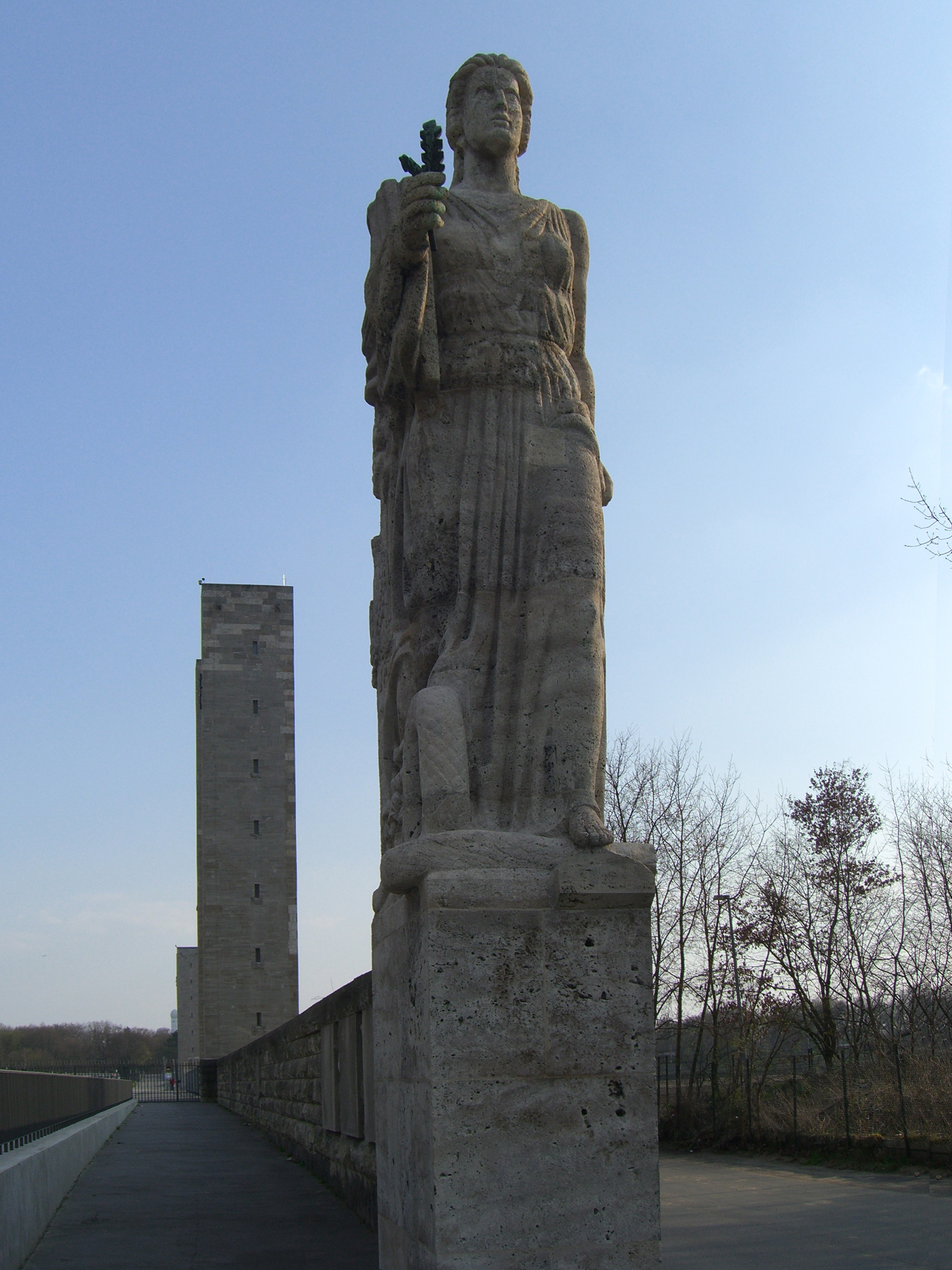 statue "German Nike" by Willy Meller (1936) at the olympic area in Berlin; in the background 36 m tall towers between the olympic stadium and the 'Maifeld'